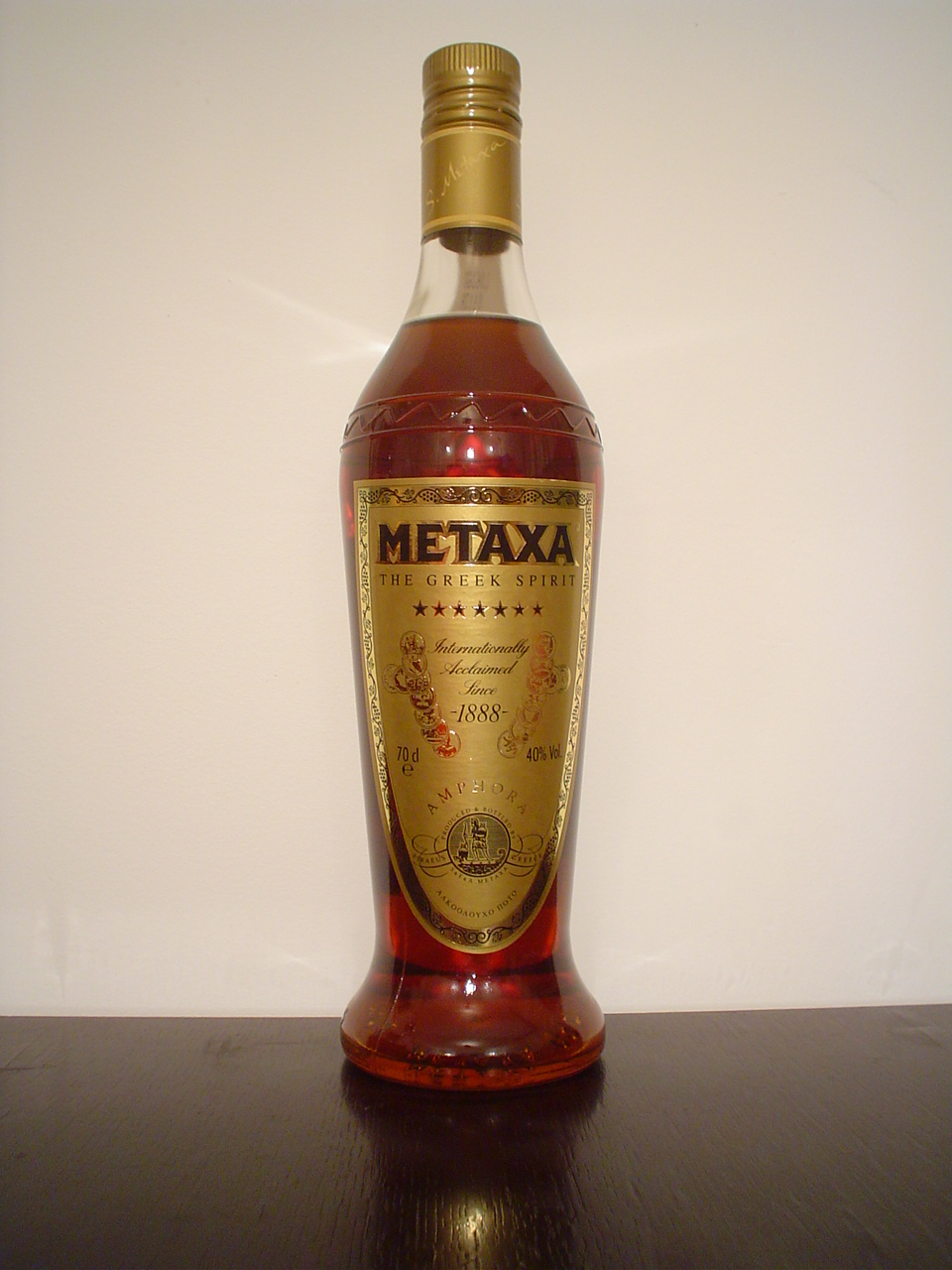 Metaxa 7-star in its characteristic "amphora" bottle